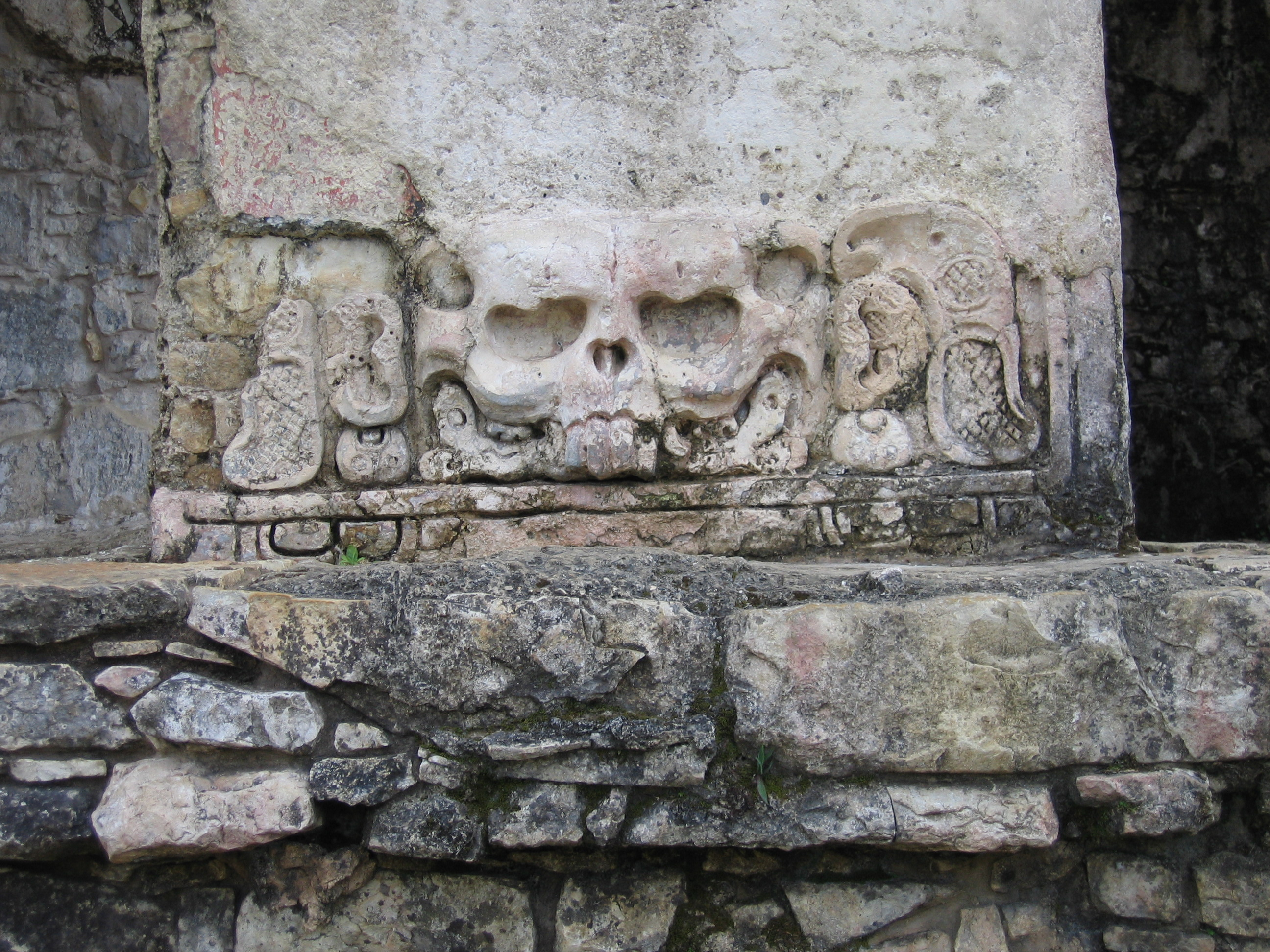 Image from the Mayan ruin site Palenque: Templo de la Calavera ( Temple of the skull )